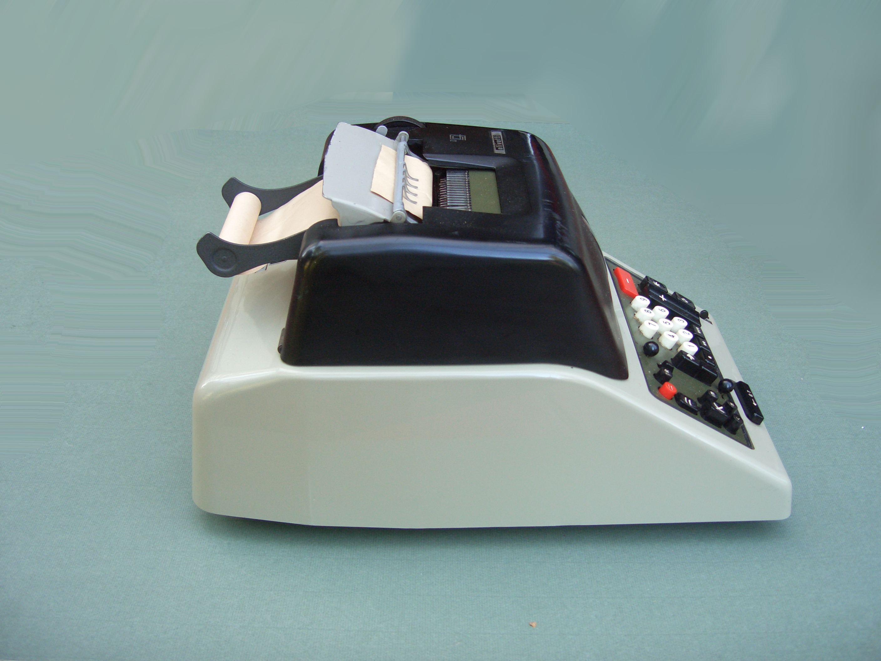 Calculator Olivetti MC 24 designed 1956 by Marcello Nizzoli